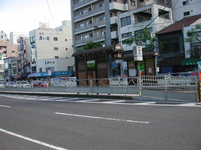 Hiroshima Electric Railway Matobacho Station for Minami Line